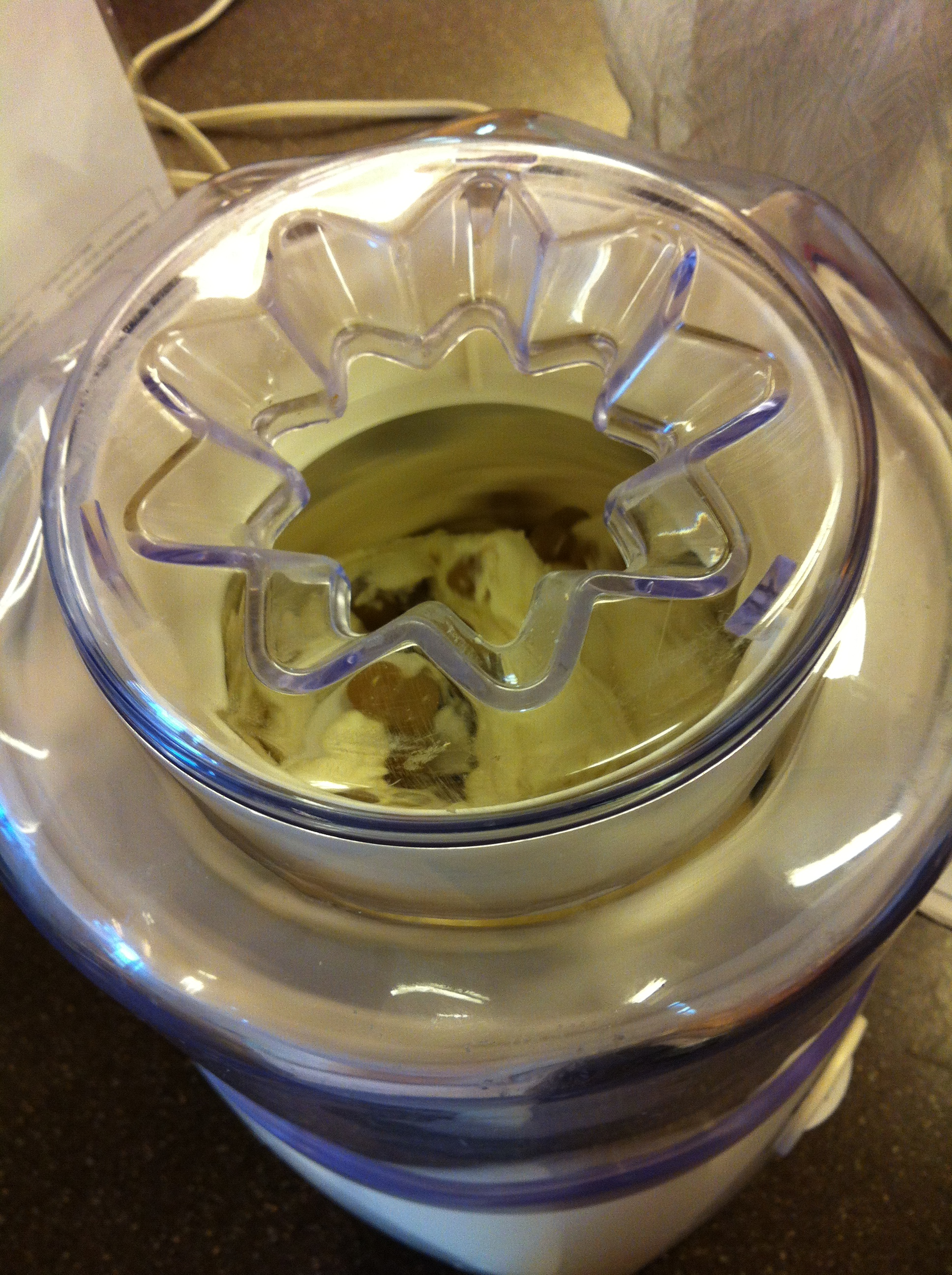 Process of boba bars being made